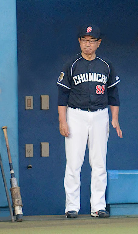 Morimichi Takagi, manager of the Chunichi Dragons, at Akita Prefectural Baseball Stadium.